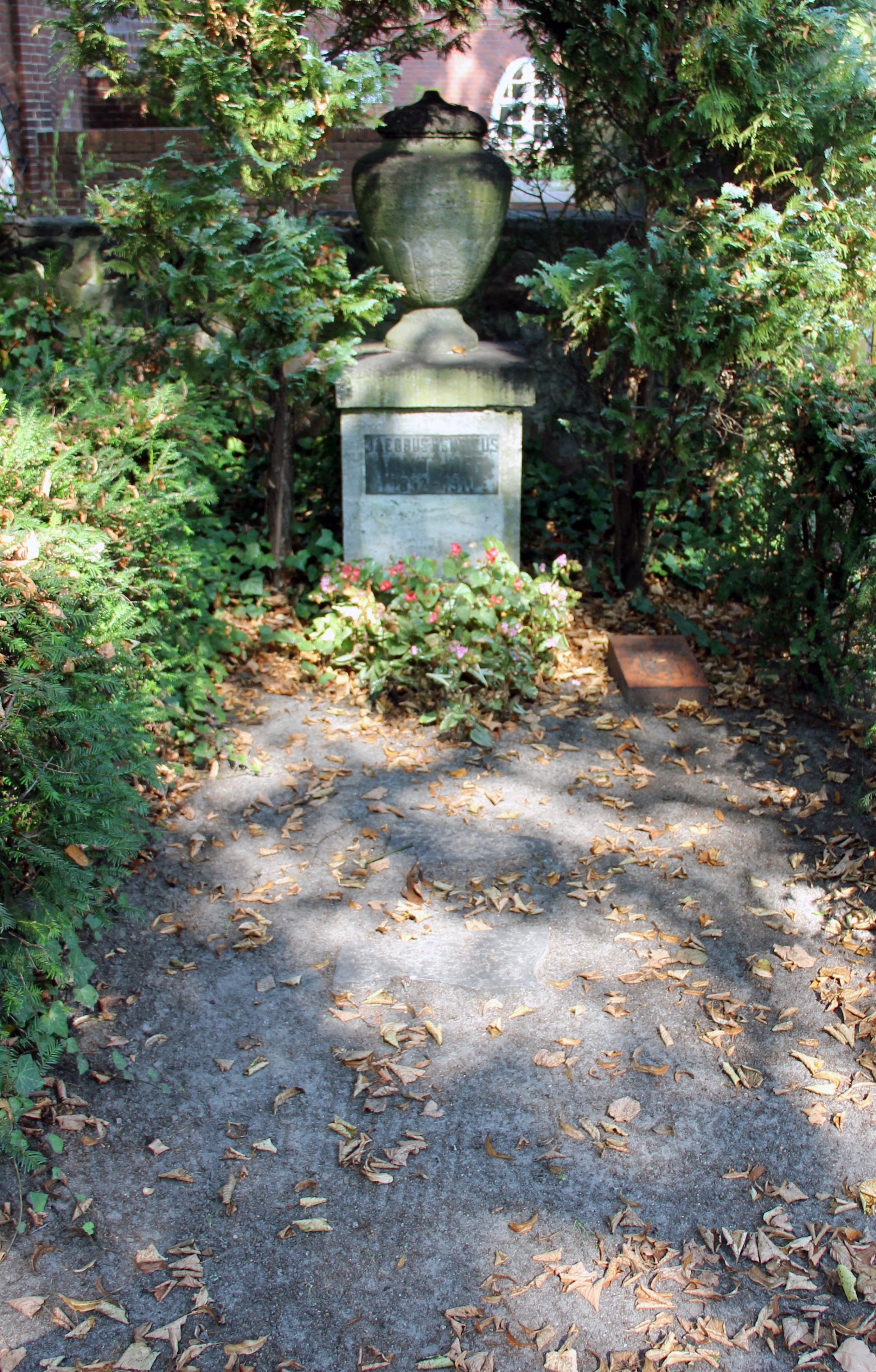 Grave of honor, Jacobus Henricus van ’t Hoff, Königin-Luise-Straße 57, Berlin-Dahlem, Germany